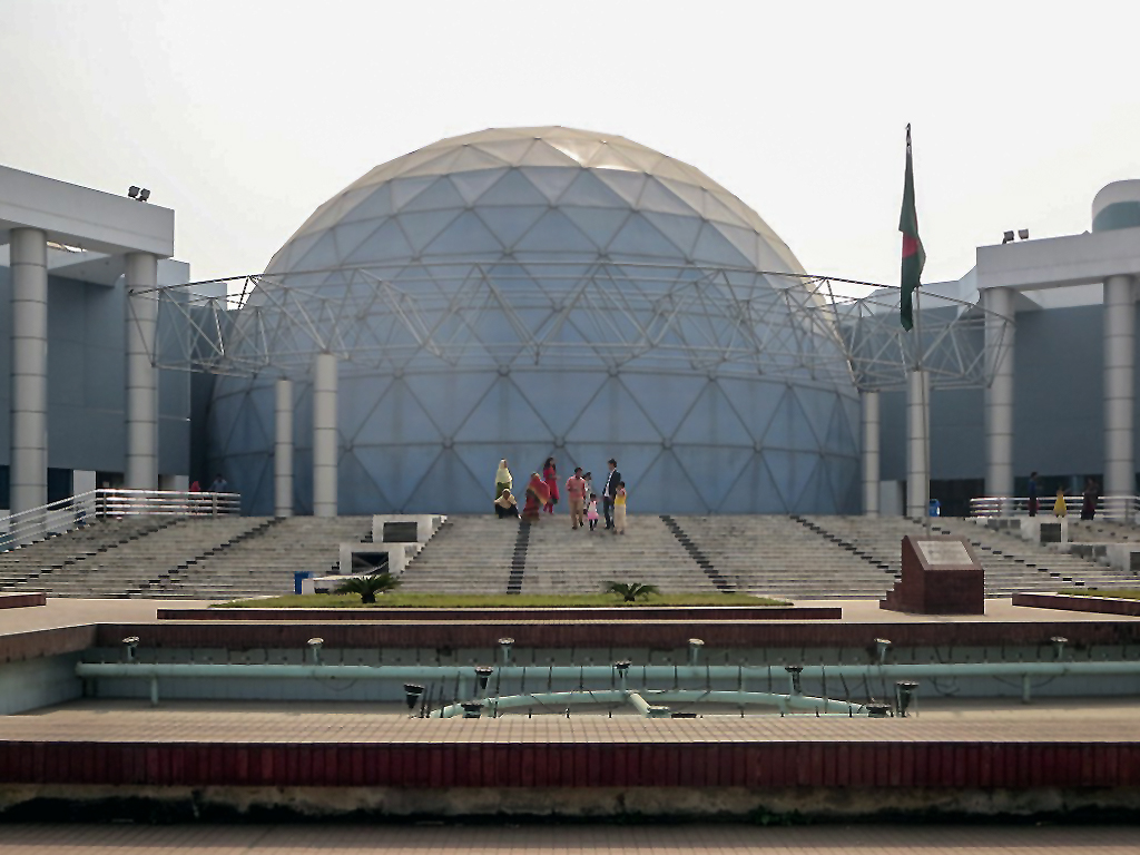 Bangabandhu Sheikh Mujibur Rahman Novo Theatre, Dhaka, Bangladesh, opened in 2004.